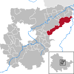 Saaleplatte in Thuringia - District Weimarer Land